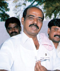 Factionist politician of Andhra Pradesh, Paritala Ravi